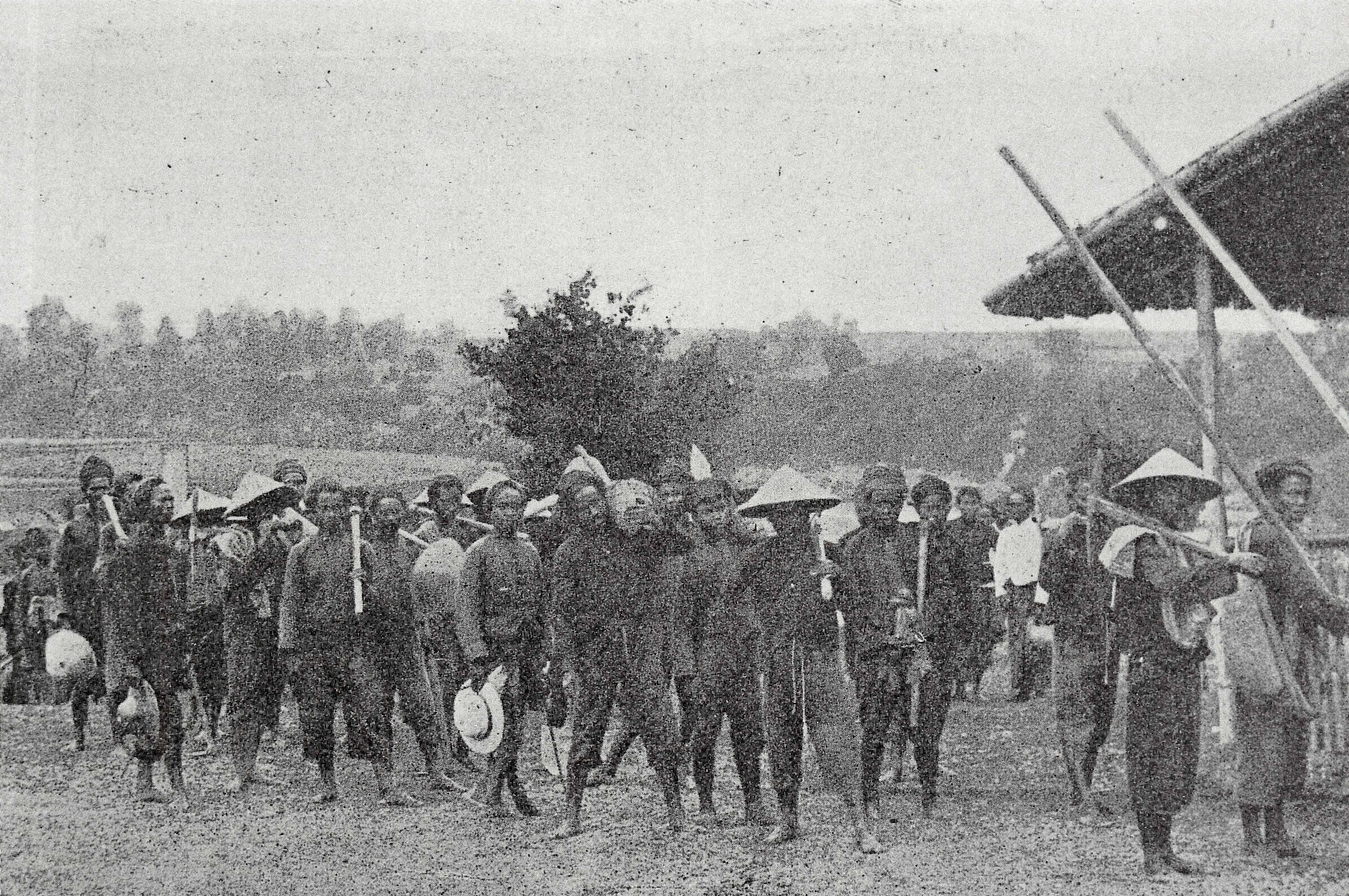 Laborers working at the exavation site at Trinil under supervision of Dutch anthropologist Eugene Dubois.